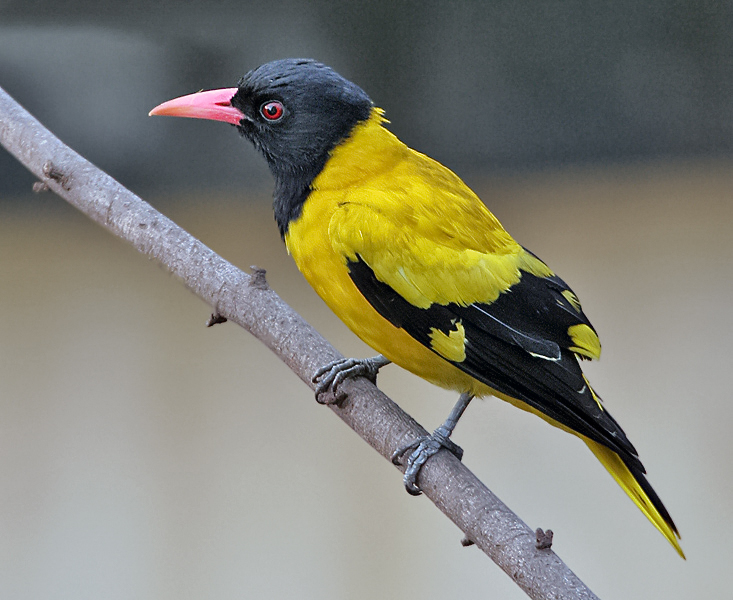 Black-hooded Oriole (Oriolus xanthornus) in Kolkata, West Bengal, India.